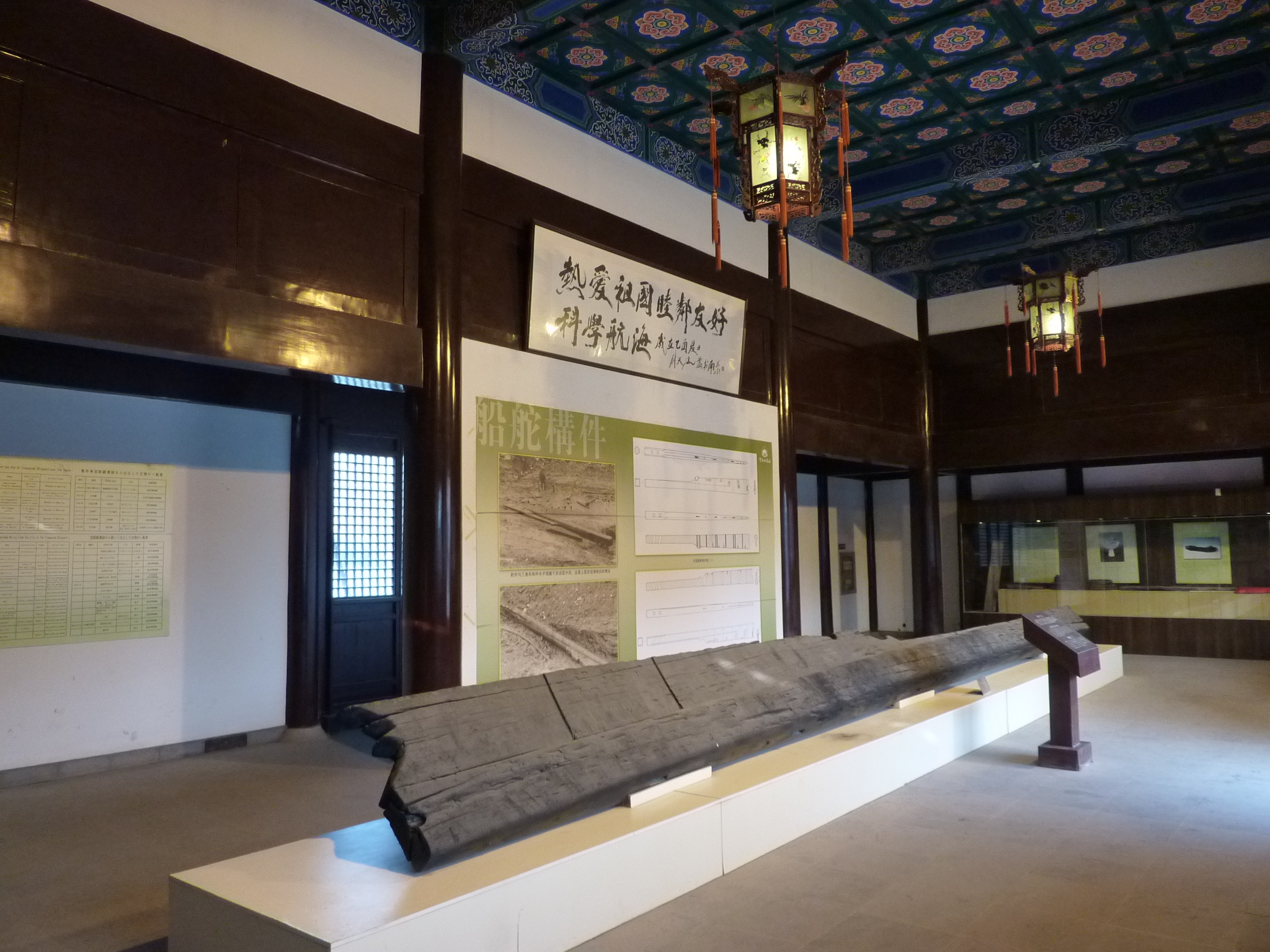 The great tiller, in the middle of exhibition hall no. 3 of the museum of the Treasure Boat Shipyard in Nanjing.